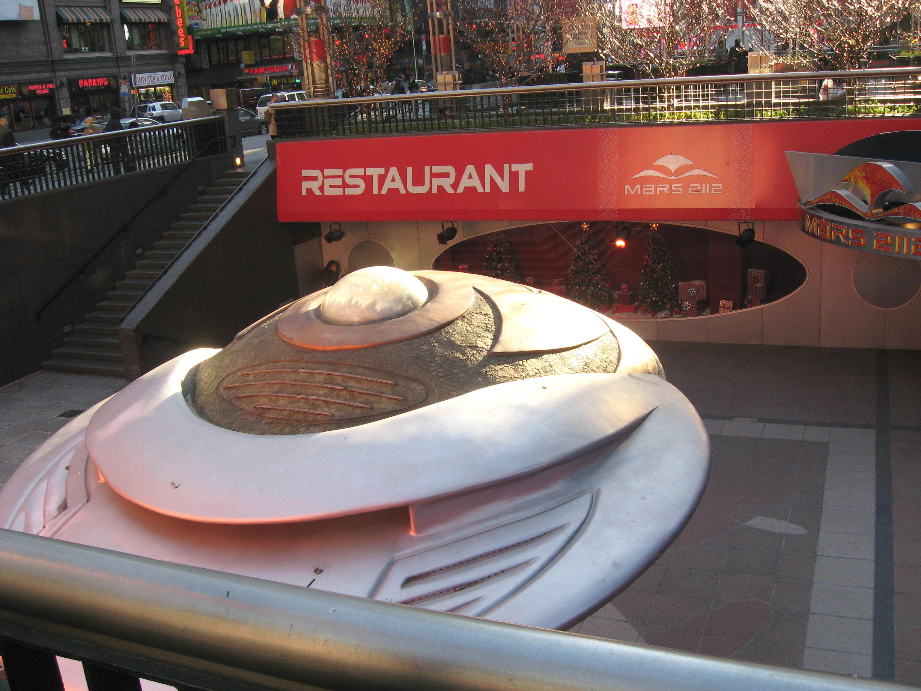 Looking south on a sunny midday at Mars 2112 flying saucer and canopy in sunken northern courtyard of Paramount Plaza. See File:Paramount Plaza south IRT W50 jeh.JPG for southern courtyard.